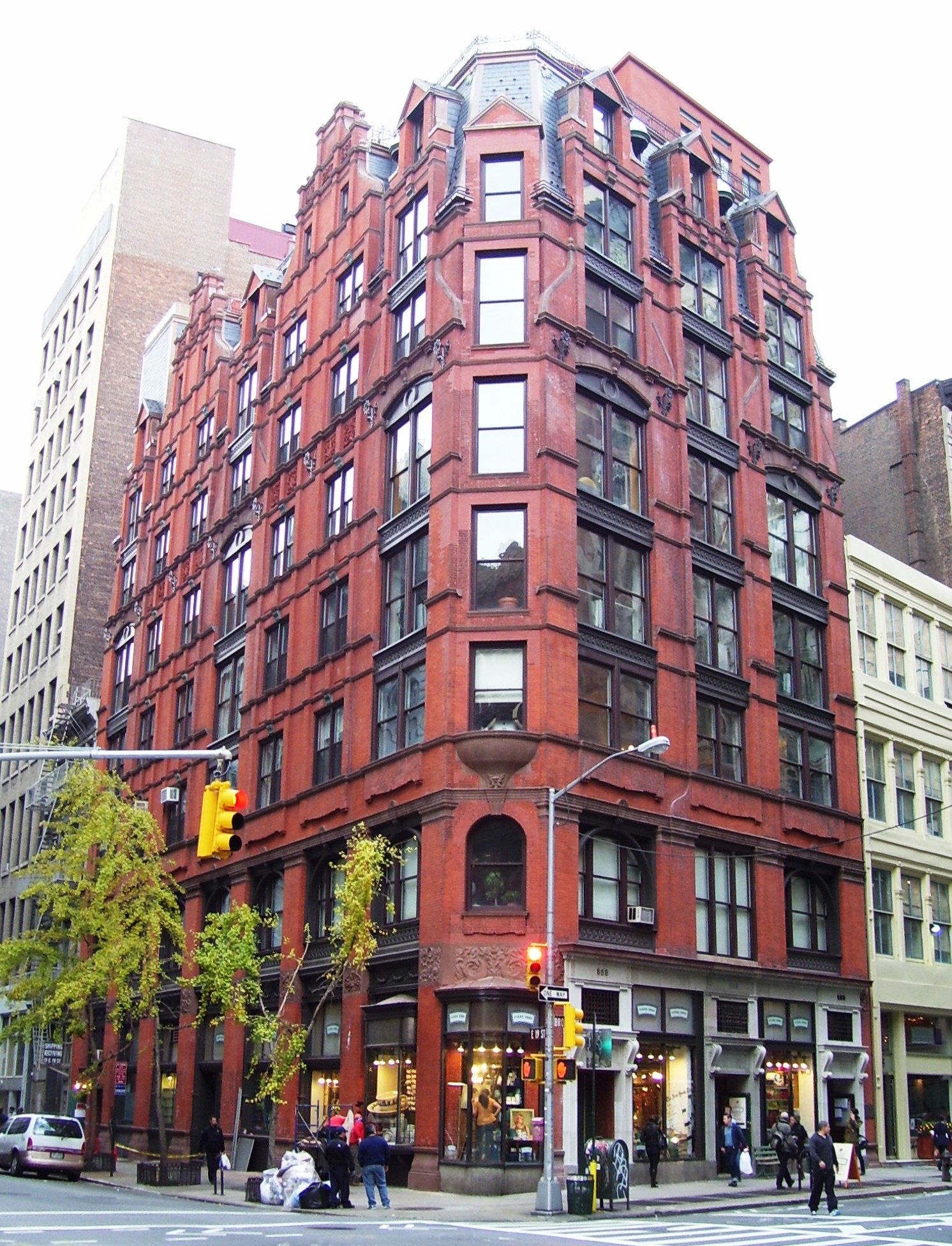 The Gorham Silver Manufacturing Company Building, at 889 Broadway at 19th Street in Manhattan, New York City, was built in 1883-1884 (designed by Edward Hale Kendall) as a mixed-use building with bachelor apartments above the two-floor store of the Gorham Company. The company took over the entire building within a few years, and then moved uptown in 1905, after which the building was converted to lofts and offices (1912, John H. Duncan). It was made over into apartments above a retail space (Fishs Eddy) in 1977. The building is a NYC Designated Landmark. See File:WTM3 TEAM 21 0011.jpg for plaque.